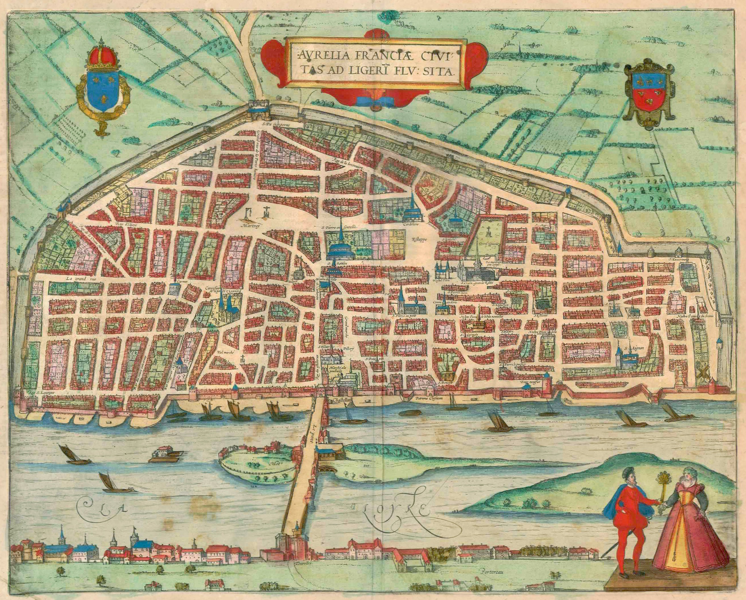 1581 map of Orléans, France. Copper engraving 34.5 x 43 cm (13.5 x 16.8 inches)